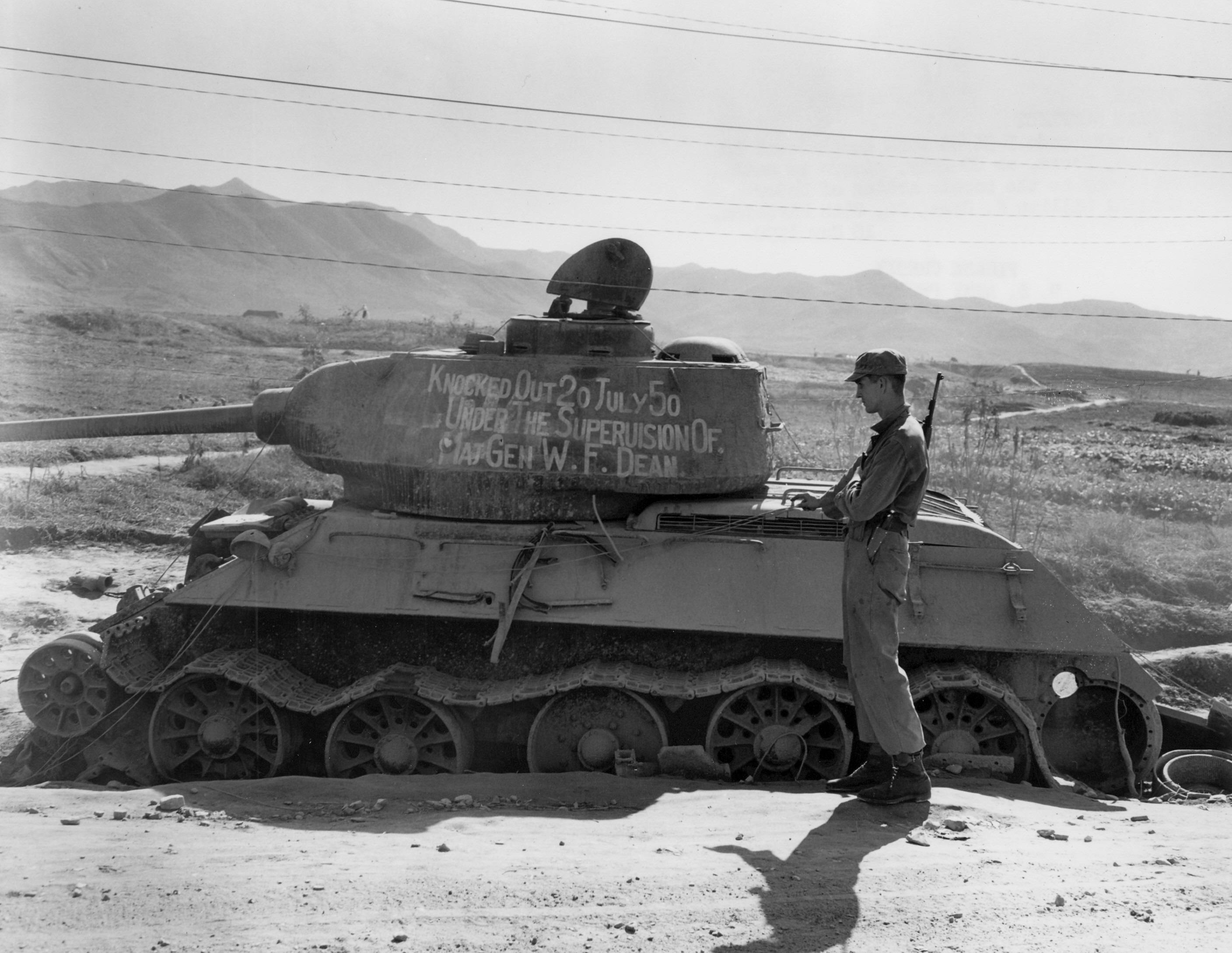 A Russian made T34/85 tank knocked out in Taejon, Korea, on 20 July stands at testimony to the heroic action of Major General William F. Dean, Commanding Officer,24th Infantry Division.(Korean War Signal Corps Collection).